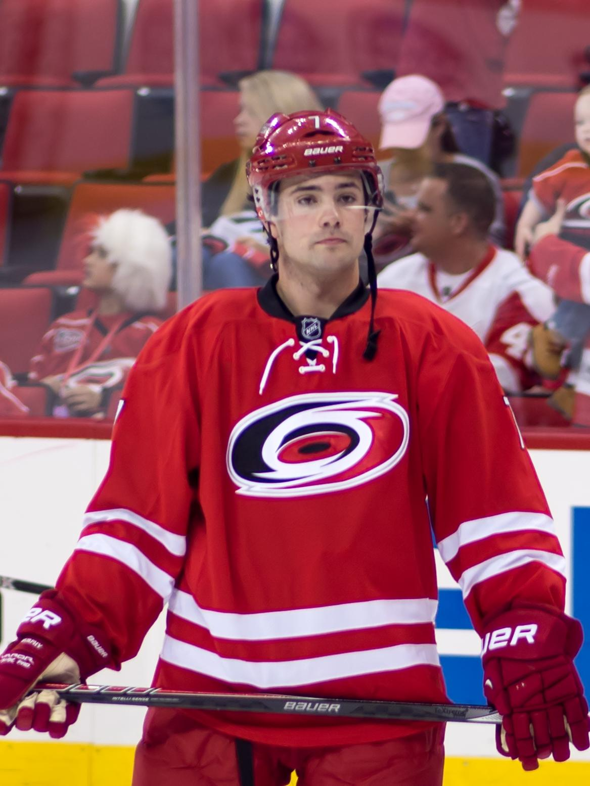 Ryan Murphy, Canadian ice hockey defenseman